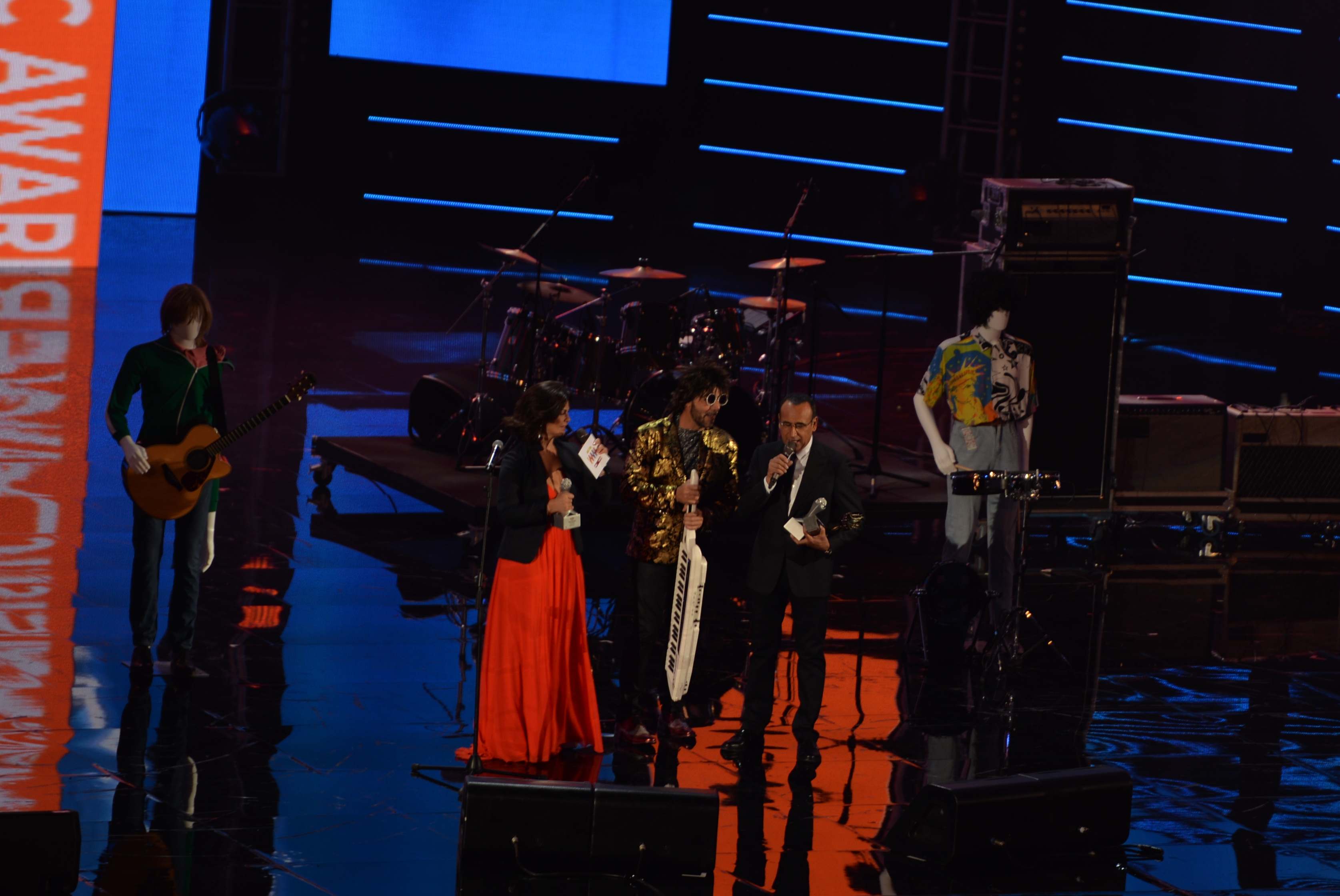 Max Gazzè during the Wind Music Awards 2016 ceremony at Verona Arena